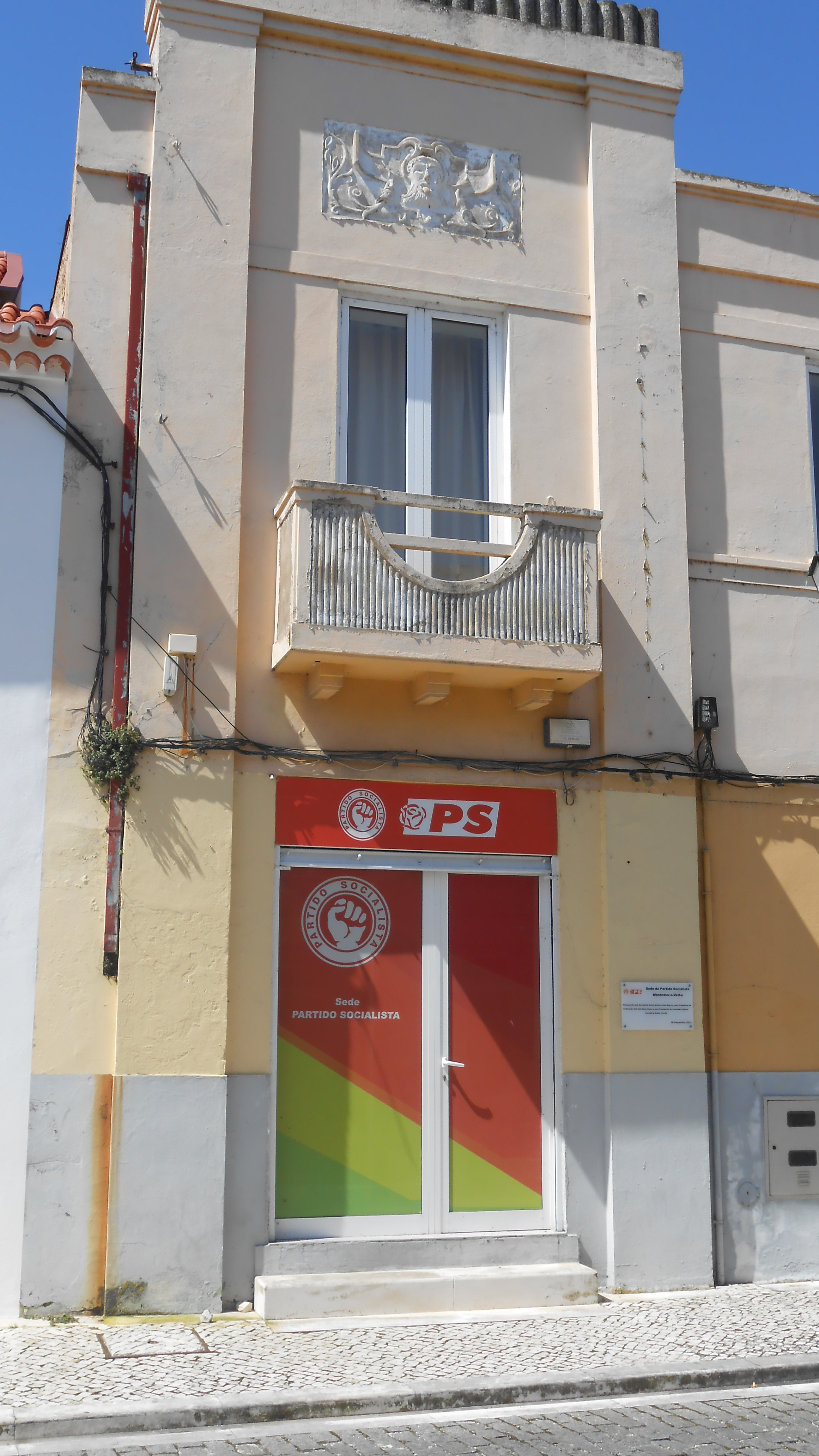 Office of the portuguese socialist party Partido Socialista in Montemor-o-Velho